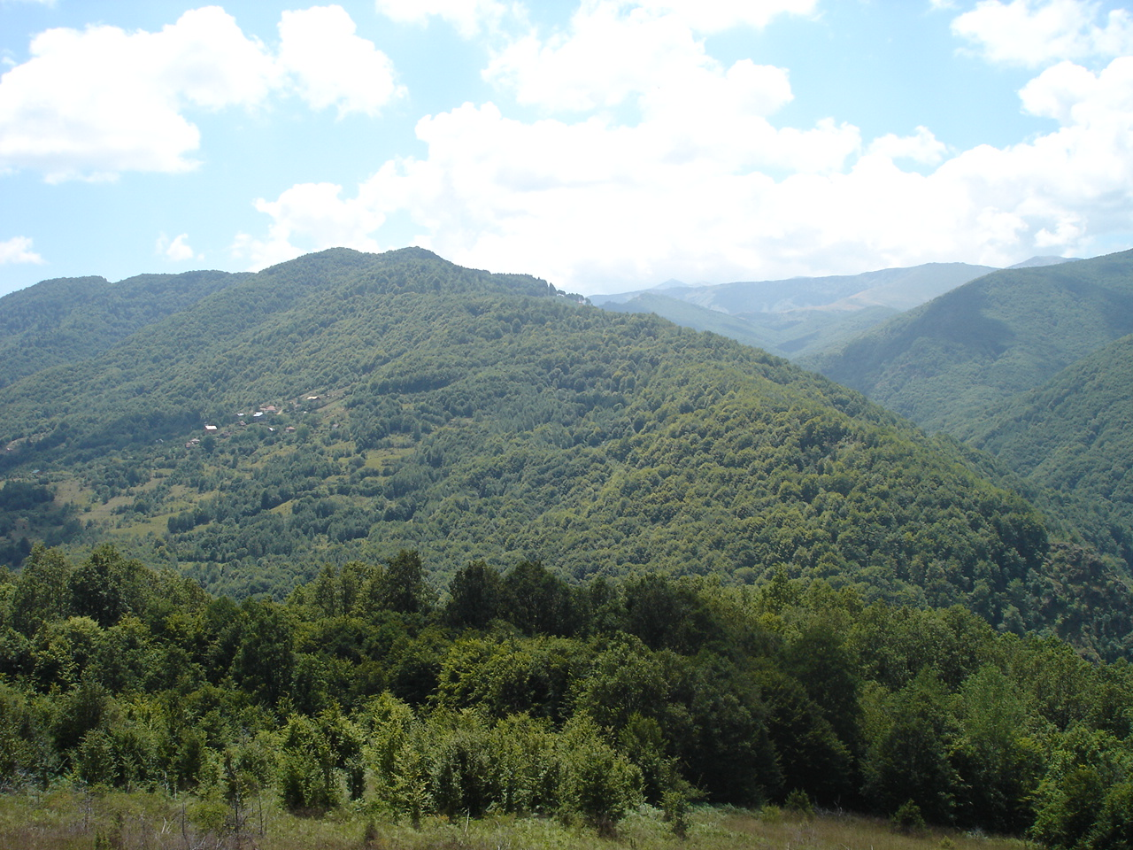 mountain Mumdzica, Macedonia